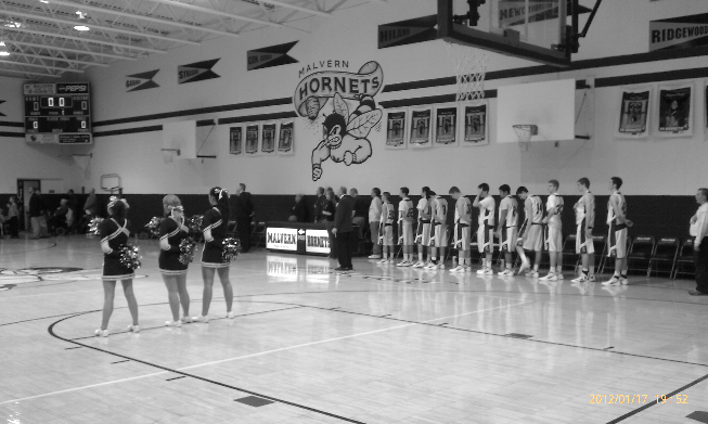 Malvern Hornet Basketball - Star Spangle Banner